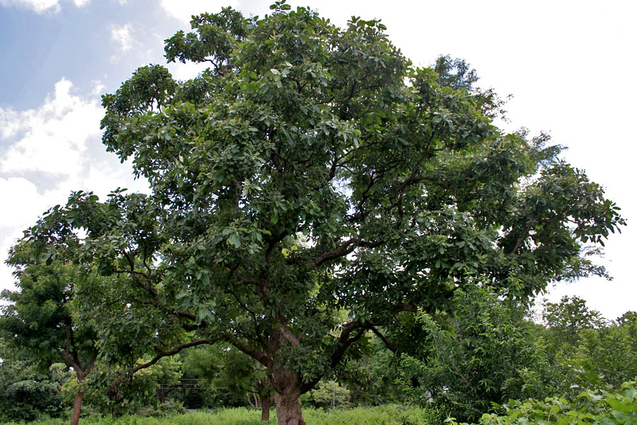 Semecarpus anacardium (Syn. A. orientale)- Marking Nut, dhobi nut tree, Indian marking nut tree, Malacca bean, marany nut, marsh nut, oriental cashew nut, varnish tree • Hindi: भिलावां or भिलावन bhilawan, बिल्लार billar • Marathi: भल्लातक bhallataka, भिल्लावा bhillava, बिब्बा bibba • Tamil: சேங்கொட்டை cen-kottai, சோம்பலம் compalam, காலகம் kalakam, காவகா kavaka, கிட்டாக்கனிக்கொட்டை kitta-k-kani-k-kottai • Malayalam: അലക്കുചേര് alakuceer, ചേന്‍ക്കുരു ceenkkuru, തേങ്കൊട്ട theenkotta • Telugu: భల్లాతము bhallatamu, జీడిమామిడిచెట్టు jidimamidichettu • Kannada: ಗೇರ geru, ಗೇರಣ್ಣಿನ ಮರ gerannina mara • Bengali: ভল্লাত bhallata, ভল্লাতক bhallataka • Oriya: bhollataki, bonebhalia • Konkani: अंबेरी amberi, बिब्बा bibba • Urdu: baladur, بهلاون bhilavan, بلار billar • Assamese: ভলা bhala • Gujarati: ભિલામો bhilamo, ભિલામું bhilamu • Sanskrit: अह्वला ahvala, अर्शस्तः arshastah, अरुध्कः arudhkh, भल्लातकः bhallatakah, वह्निः vahnih, विषास्या vishasya • Nepali: भलायो bhalaayo- in Narsapur, Medak district, Andhra Pradesh, India.